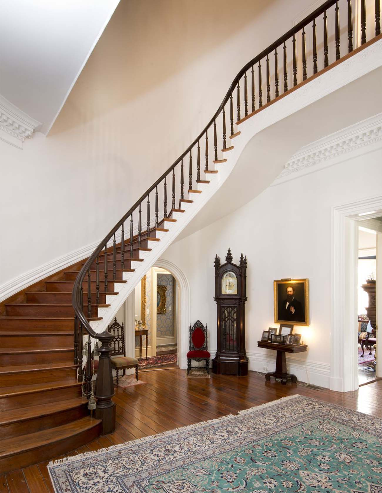 Entryway of Rose Hill Mansion, Bluffton, SC